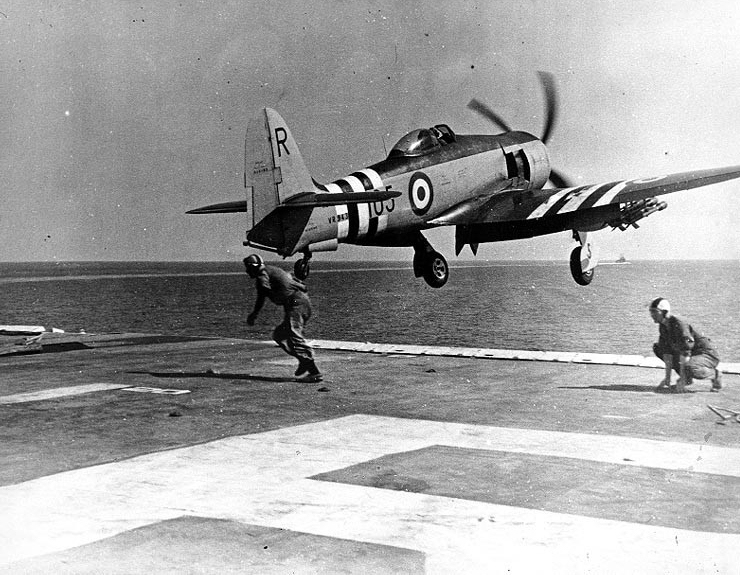 Hawker Sea Fury F.B.11 Fighter Is catapulted from the British light fleet aircraft carrier HMS Glory, during Korean war operations